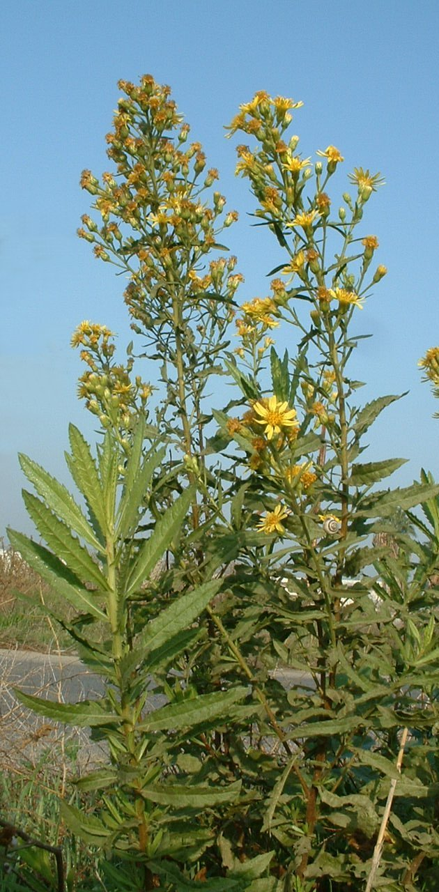 Lesser elecampane (Inula viscosa). Photographed by myself in December 2005, with Fuju FinePix 2650 camera.